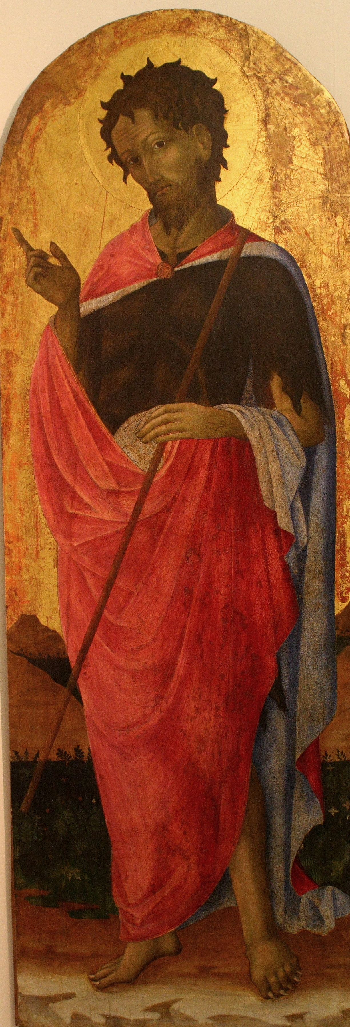 St. John the Baptist